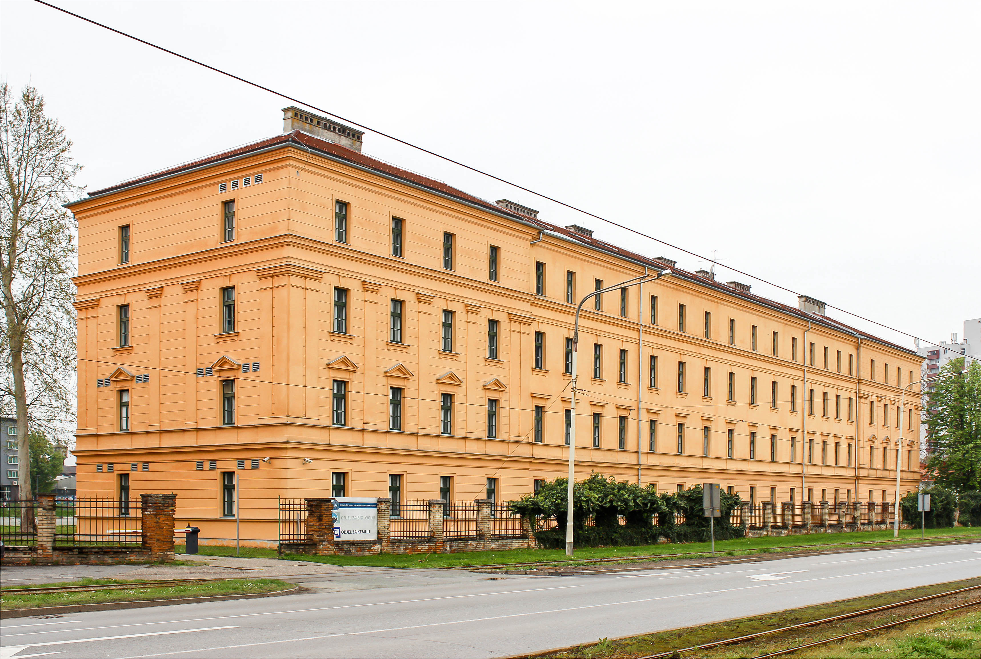 College